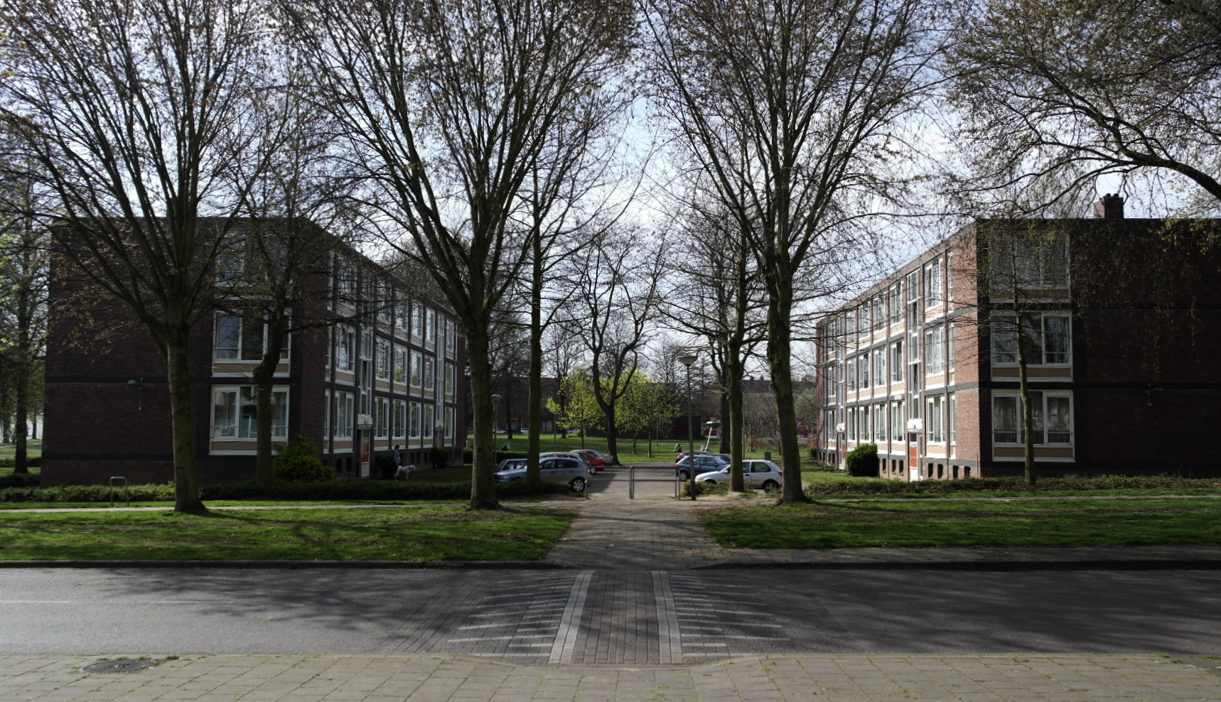 Maastricht, the Netherlands. View of typical early 1960s apartment blocks in the Maastricht-West neighbourhood of Pottenberg.